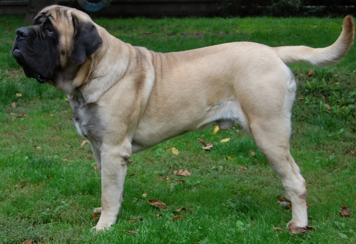 English Mastiff Westgort Anticipation at the age of 17 months